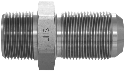 Male NPT x Male JIC